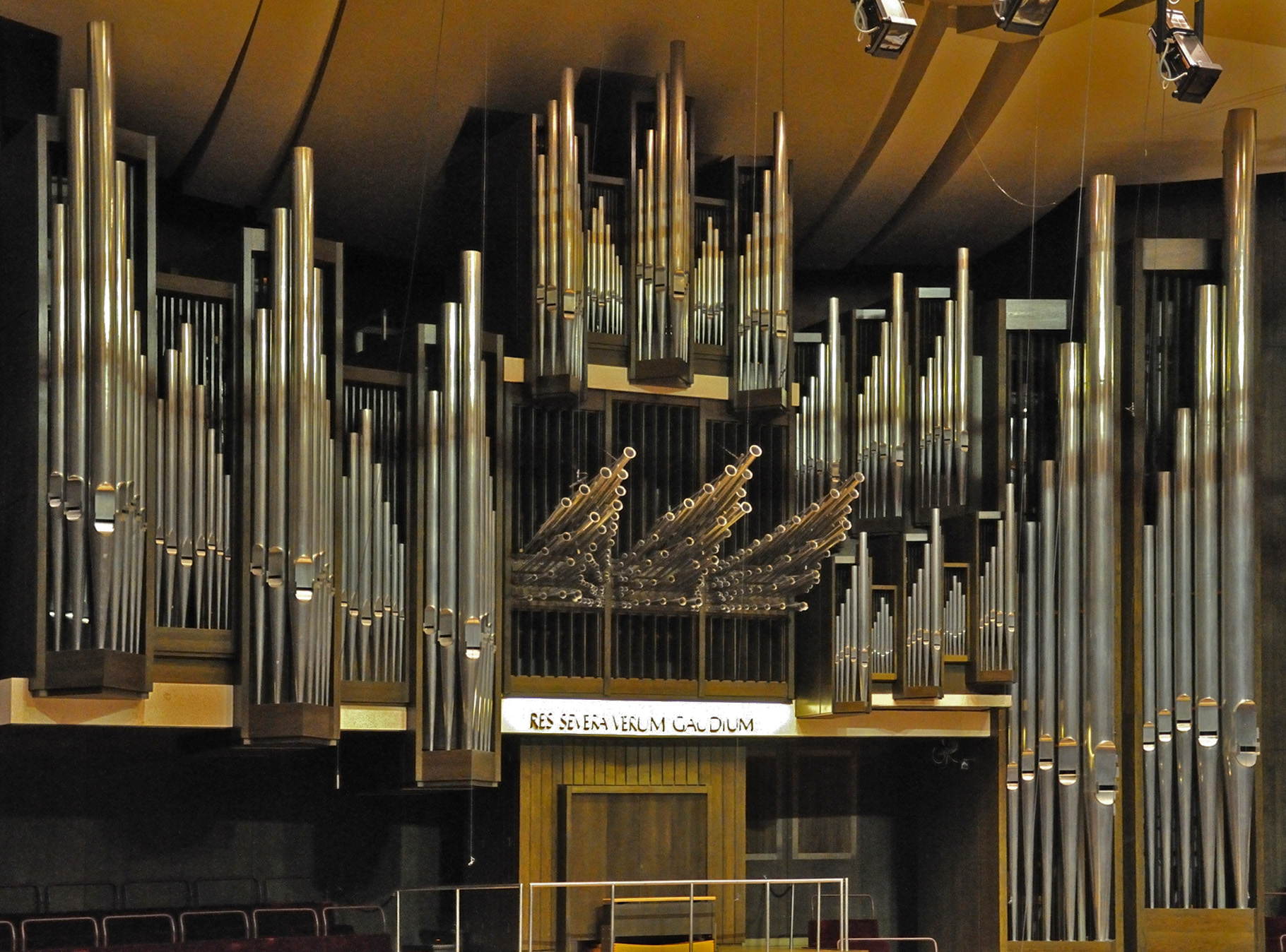 Photograph of the big organ inside the Gewandhaus, built by Schuke of Potsdam. Camera: Nikon D90